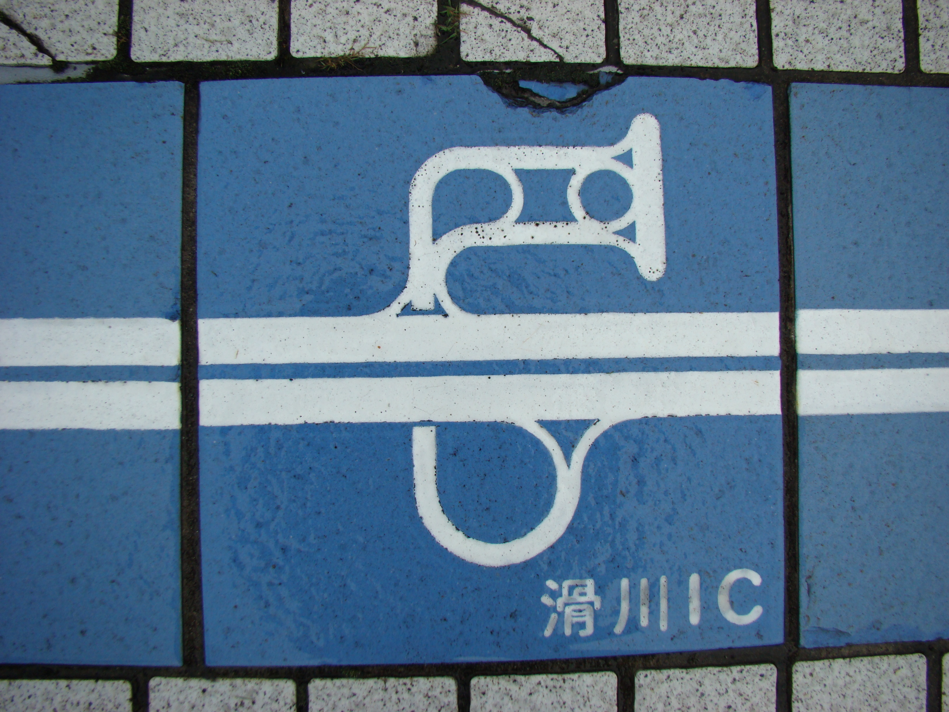 The tile which designed a shape of the Namerikawa Interchange（Hokuriku Expressway）（There is this tile in Hokuriku Expressway Nadachi-Tanihama Service Area.）. Place - Chayagahara,Joetsu City,Niigata Prefecture,Japan Date - August 9, 2009 Format - JPEG, 3264x2448pixel, 24bit colors. Photographer - NALA Wiki (talk)